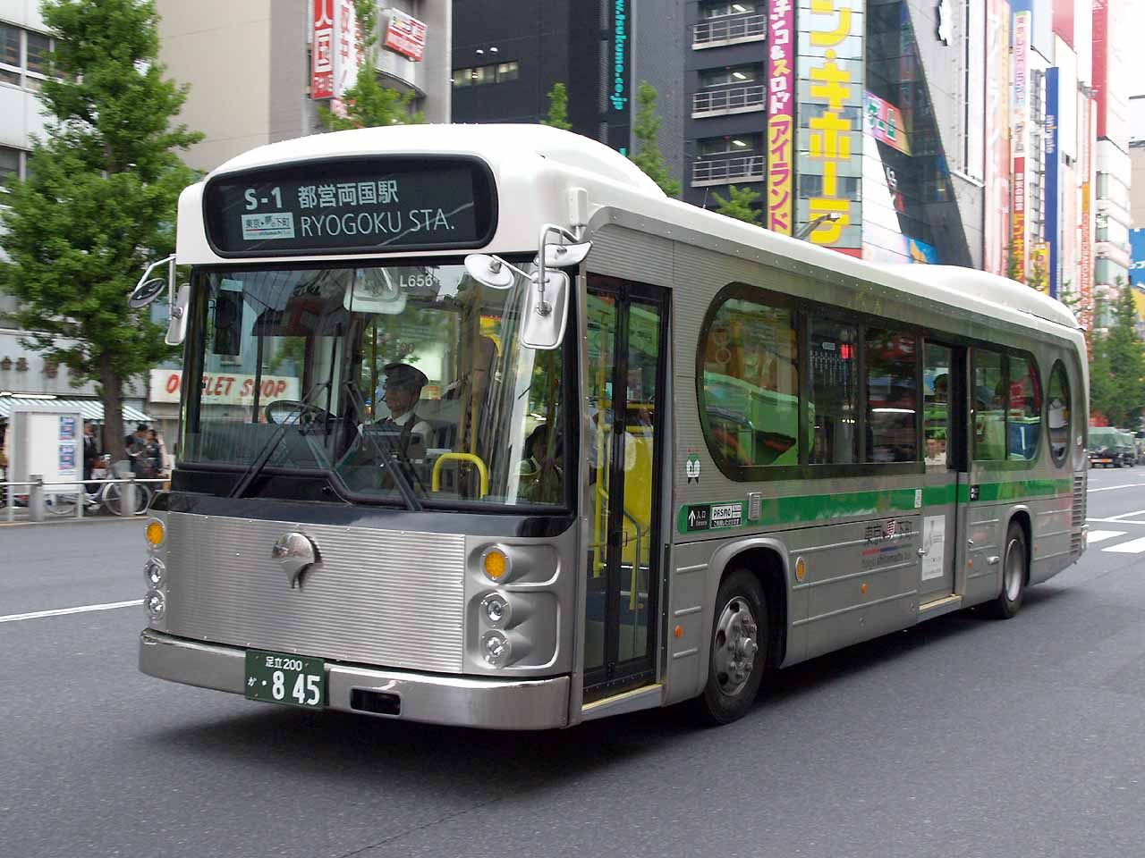 Fleet of Tobus S-1 route, operating in mid-eastern Tokyo between Marunouchi and Ryogoku via Akihabara, Ueno and Asakusa. Model: Hino Rainbow KL-HR1JNEE Customise: Tokyo Special Coach License plate: TKA200 KA-845 Place: Soto-Kanda, Chiyoda ward, Tokyo Japan 東京都交通局が2008年4月から運行を開始したS-1系統の専用車。 型式：日野レインボーHR KL-HR1JNEE 改造：東京特殊車体 登録番号：足立200か・845 撮影地：東京都千代田区外神田